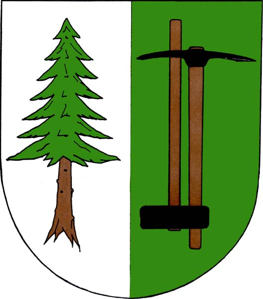 Municipal coat of arms of Sirá village, Rokycany District, Czech Republic.